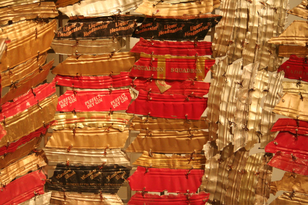 Photos from a 24 visit to London. Most of our time was in the British Museum, where we got to see the wonderful Chinese terra cotta army (no photos from that, though). Also saw a wonderfully fun play (39 Steps - no photos there either), and the £800M rennovation of St. Pancras (definitely photos).